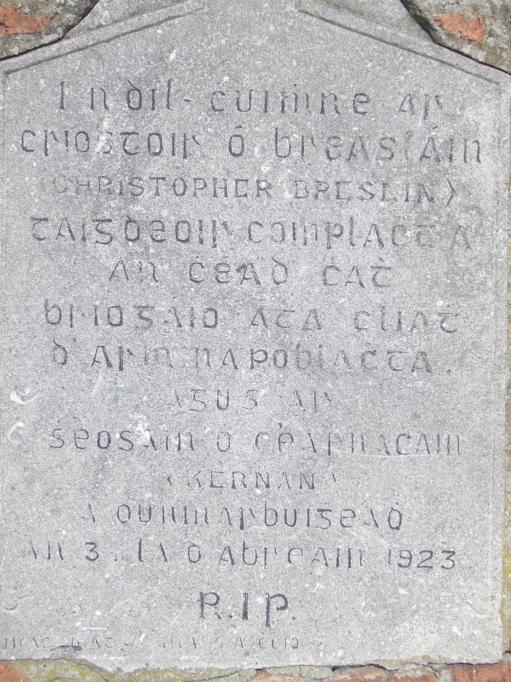 This plaque marks the spot on the Ratoath Rd, Cabra where the bodies of Section Commander Christopher Breslin, A Company, 1st Battillion and his friend J. Kiernan were dumped